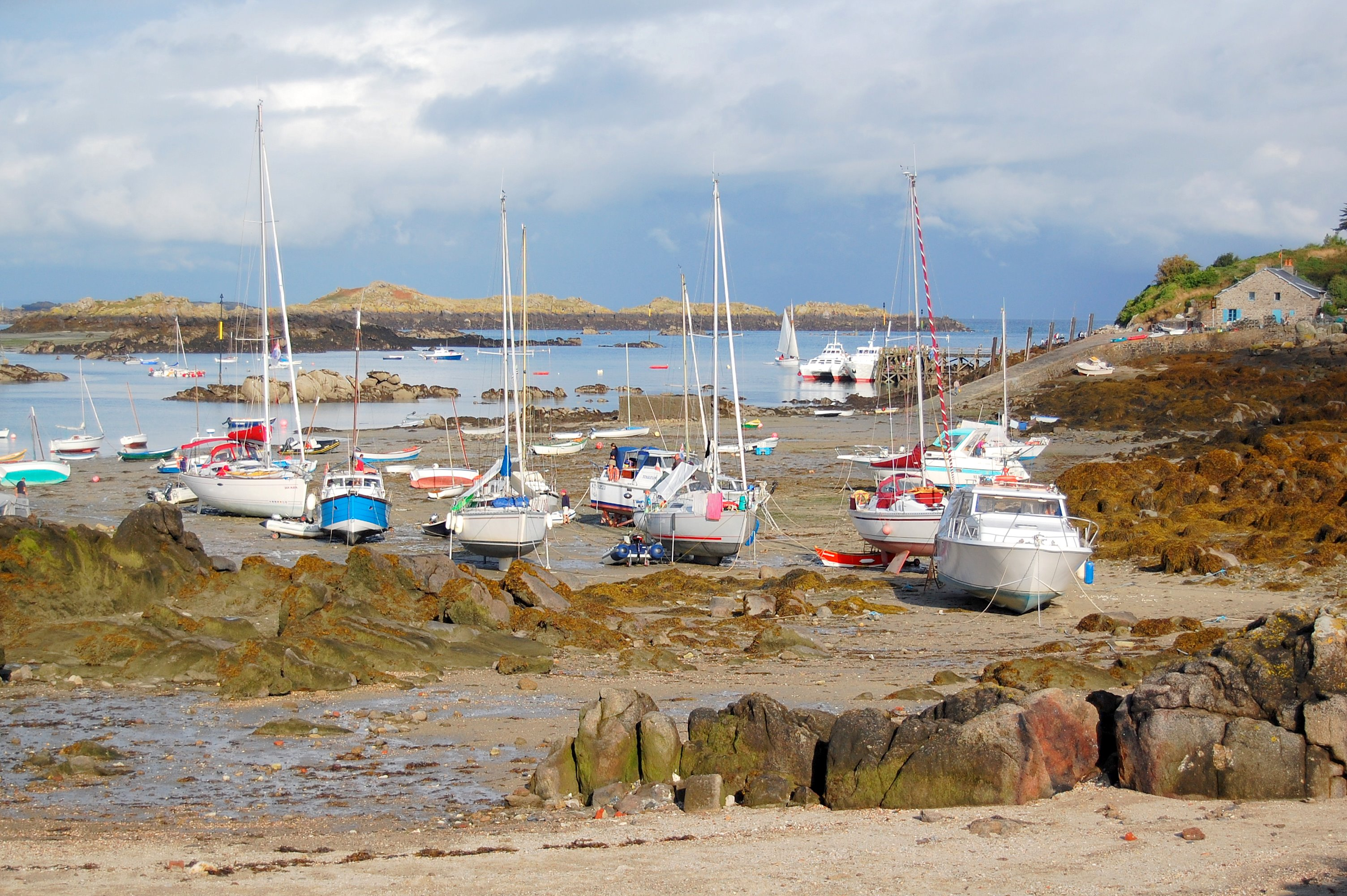 Sail boats at low tide Chausey Island, France